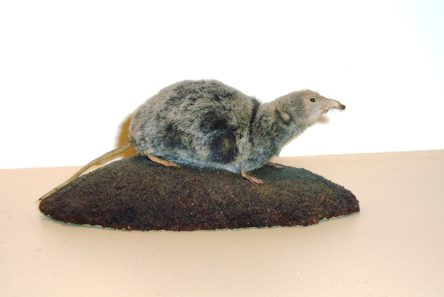 Sorex minutus, taxidermy, at Natural History Museum, London